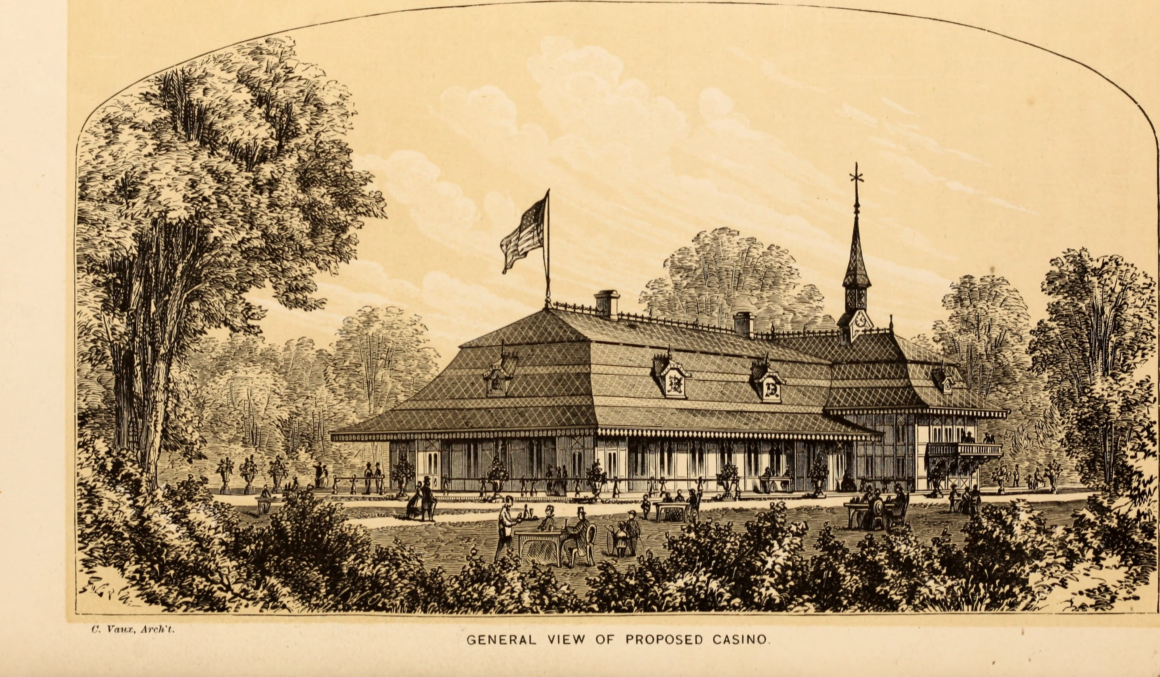 Title: Annual report of the Board of Commissioners of the Central Park Year: 1858 (1850s) Authors: New York (N. Y. ). Board of Commissioners of the Central Park Subjects: Publisher: [New York : s. n. ] Text Appearing Before Image: ' Text Appearing After Image: '